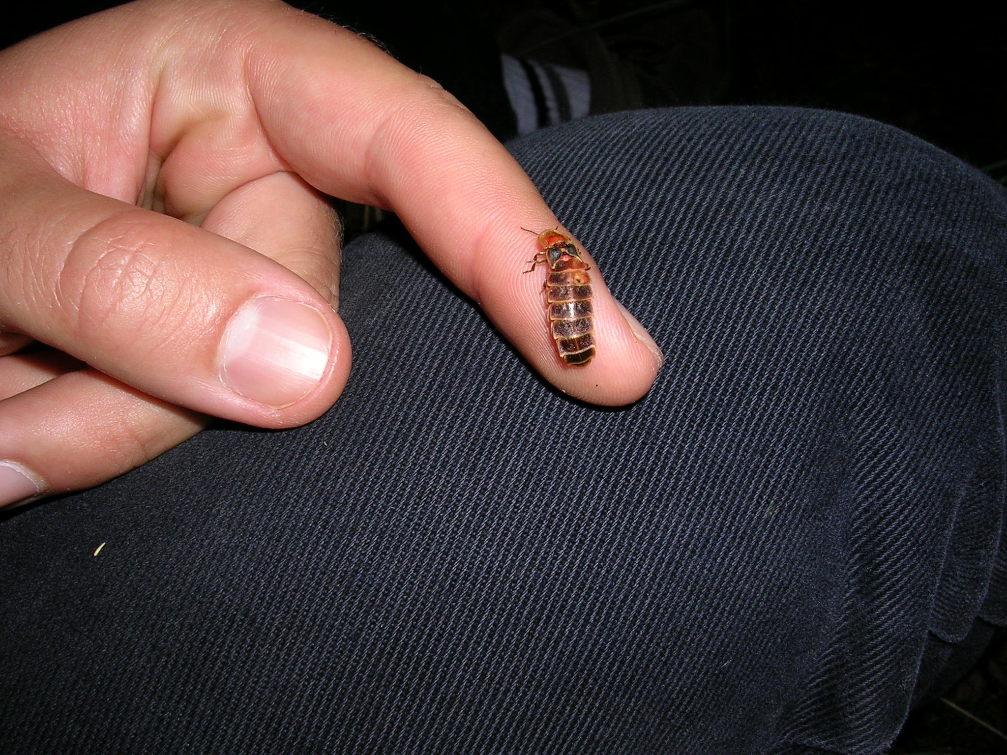 Firefly on Etna (Sicily) Not genus Luciola. Dysmorodrepanis (talk) 00:06, 21 July 2008 (UTC)